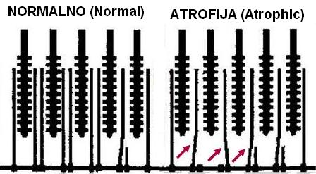 Schematic representation of the in vivo status of thin-filament packing density and spacing in half a sarcomere from a normal pre-flight muscle and in half a sarcomere from an atrophic muscle after a 17-day space flight in humans.